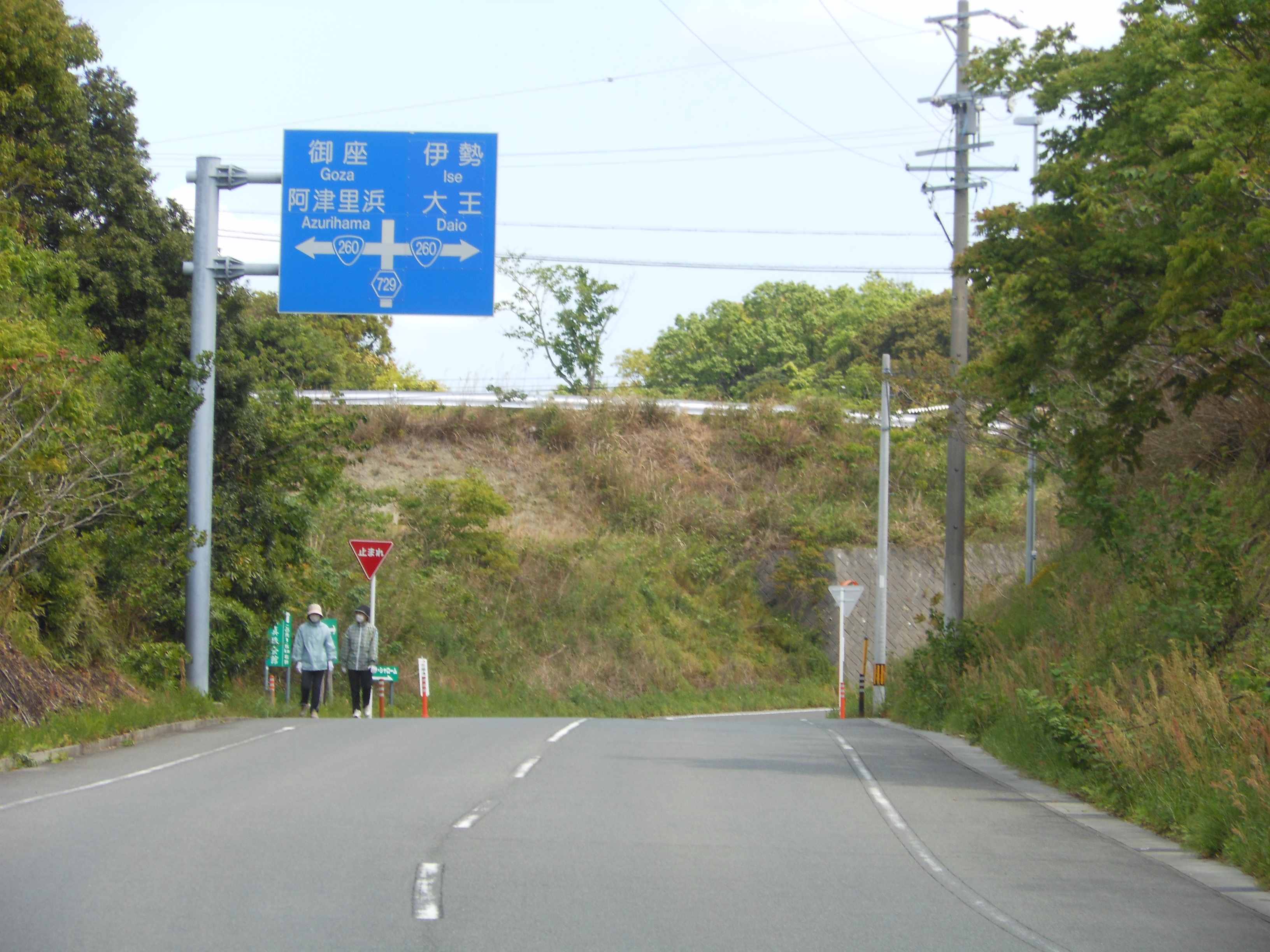 this is the end point of Mie prefectural road No.729 Higashi Urta Line, which is in Shimacho-Wagu, Shima, Mie, Japan.